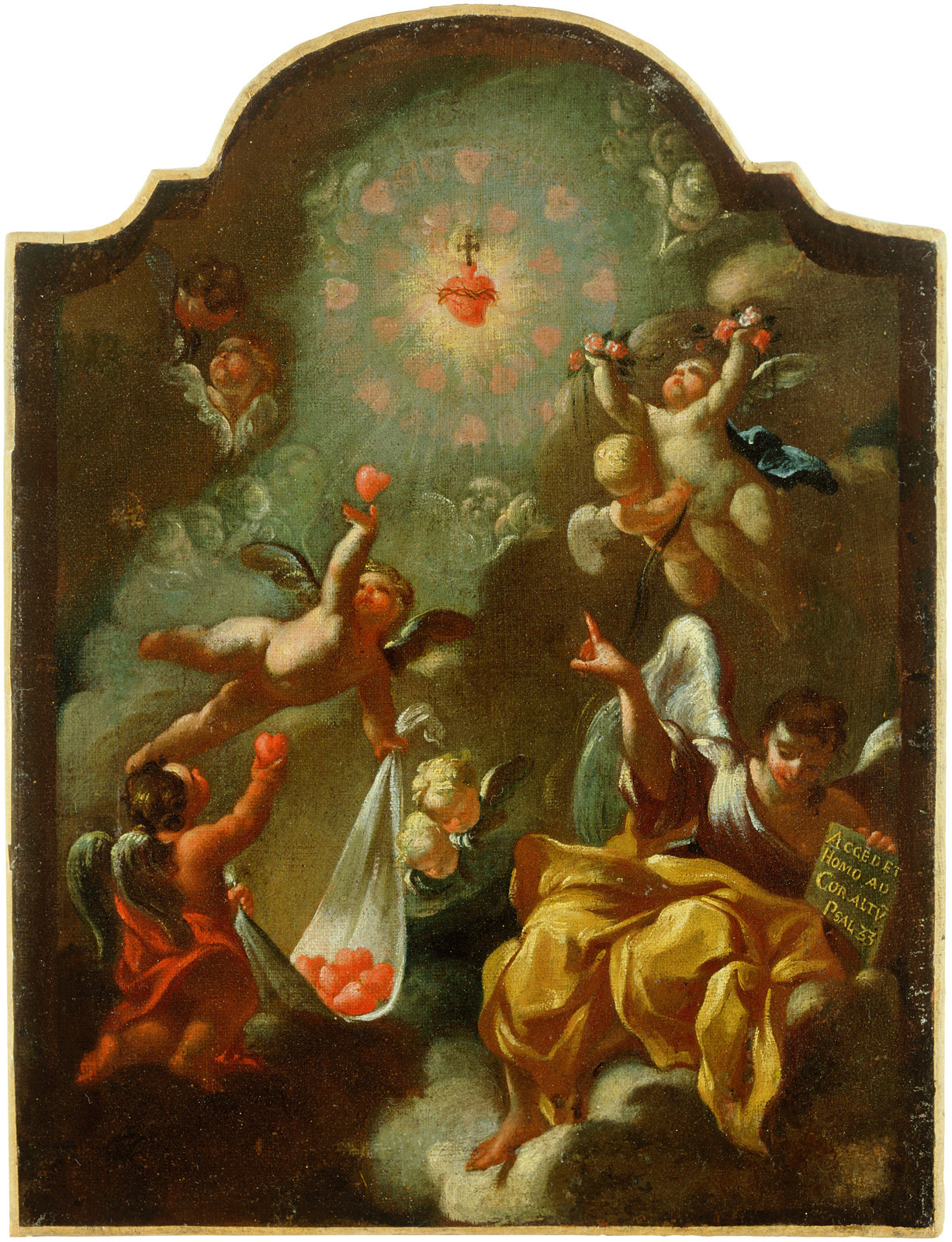 Sacred Heart of Jesus. The legend cites Psalm 63:7, Accedet homo ad cor altum (modern numbering: Psalm 64:6) This is a difficult verse, and the Latin translation is based on LXX, προσελεύσεται ἄνθρωπος καὶ καρδία βαθεῖα, the altum here expressing "deep, profound", not "high, elevated". The original has: וְקֶרֶב אִישׁ וְלֵב עָמֹֽק The KJV, based on the Hebrew directly, attempts "both the inward [thought] of every one [of them], and the heart, [is] deep", and the modern understanding of the Hebrew text now has the "deep heart" (לֵב עָמֹֽק) refer to human hubris, not to a pious or mystical "ascent of the heart", Knox translation: "Let the thoughts of man’s heart be deep as they will / yet God has arrows, too, to smite them with, sudden wounds to deal them", Haydock Commentary "Heart. That is, crafty, subtle, deep projects and designs; which nevertheless shall not succeed; for God shall be exalted in bringing them to nought, by his wisdom and power." But in early modern interpretation, the Latin text was interpreted in mystical terms of the Sacred Heart (apparently based on a "pun" by Saint Bernhard), or as Christ, as Man, "ascending" to the "Secret Heart"[1], which is apparently the subject matter expressed in this allegorical painting.